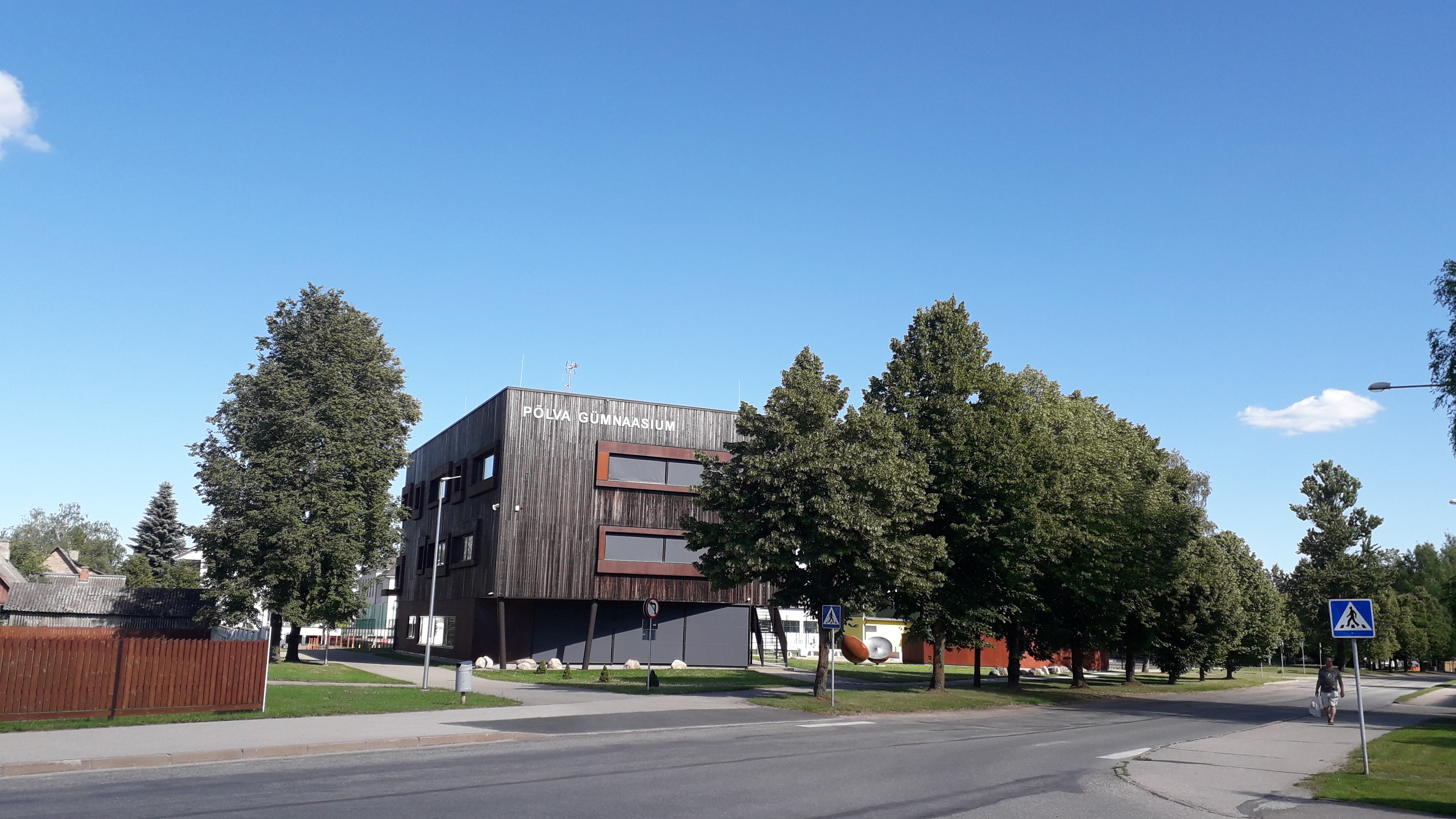 Põlva gümnaasium